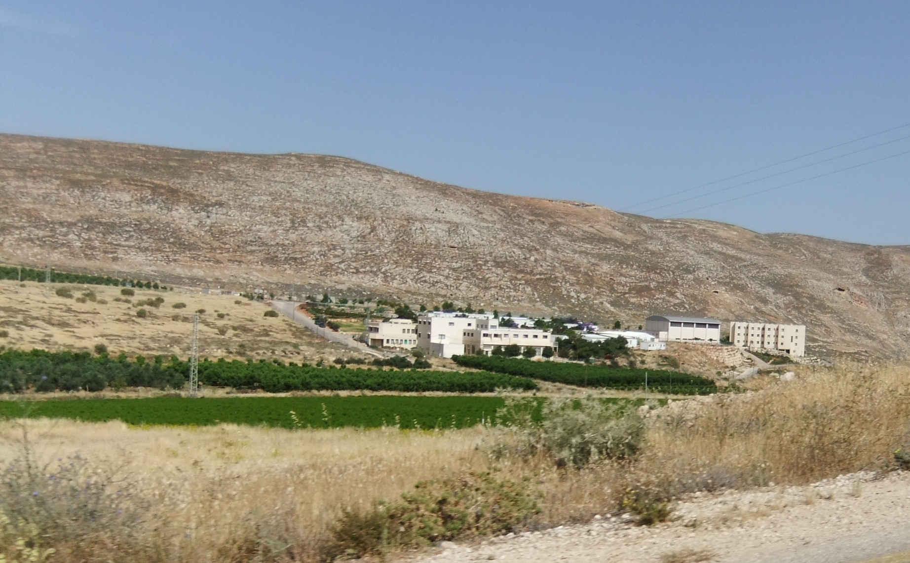 Ahavat Chayim Yeshiva in Kochav Hashachar